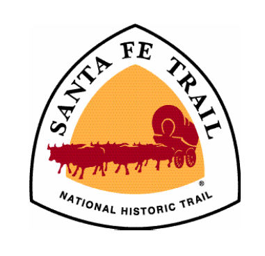 Emblem of Santa Fe National Historic Trail by the National Park Service of the United States